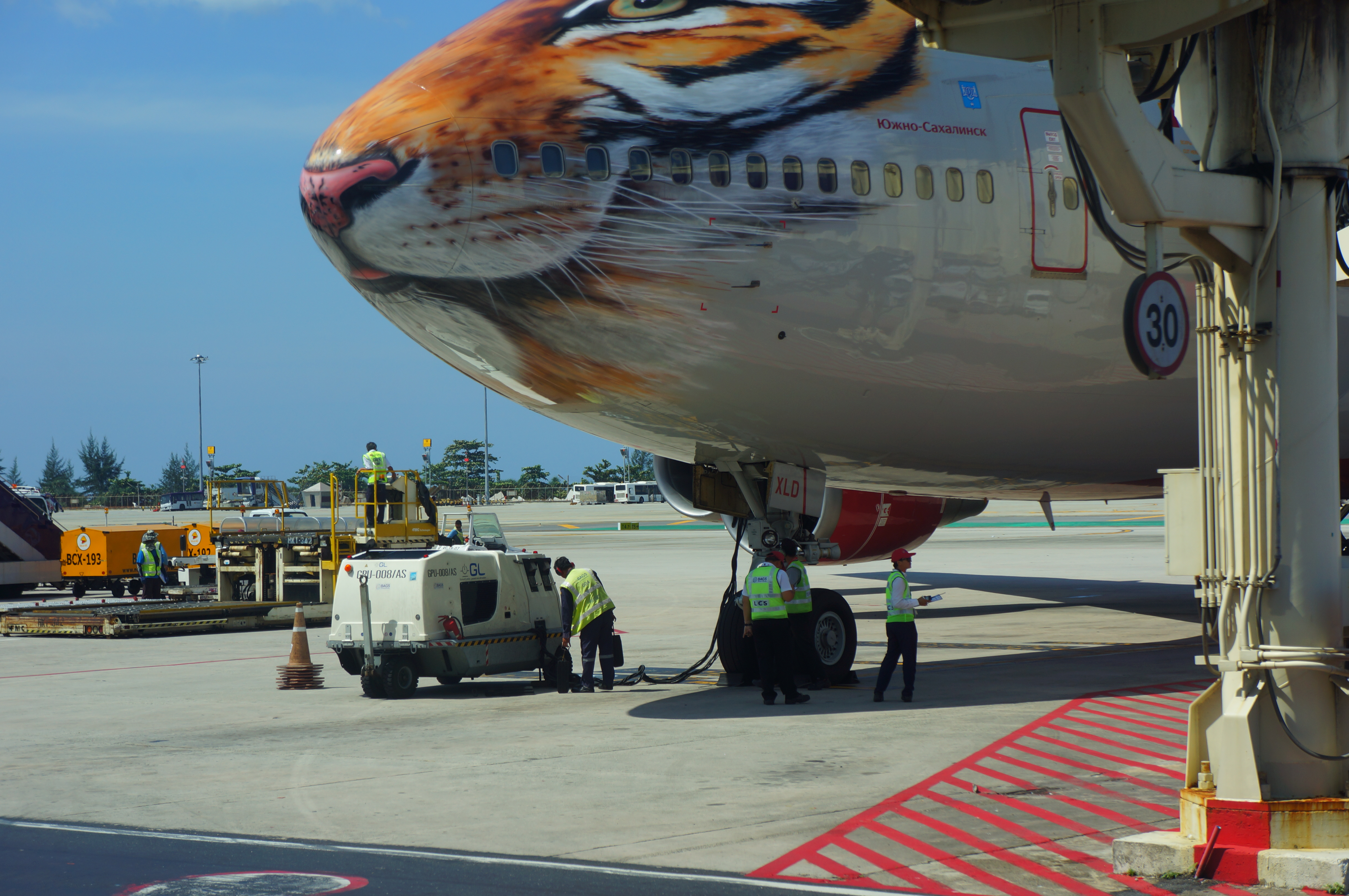 201701 EI-XLD with GPU supply